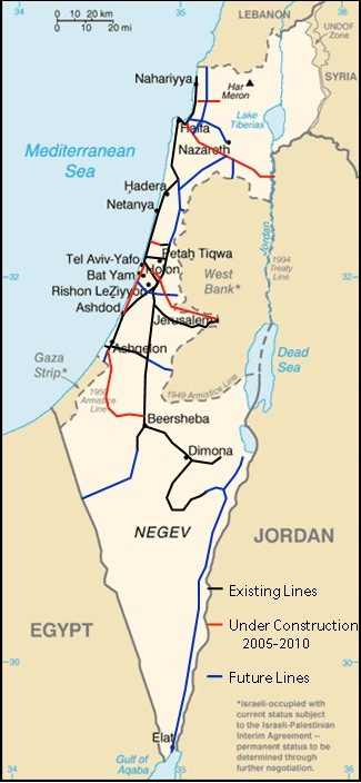 Map of Israel Railways' Network Image has been modified by Wikiliki to display Israel Railways rail lines. Original image source is from the CIA world factbook.